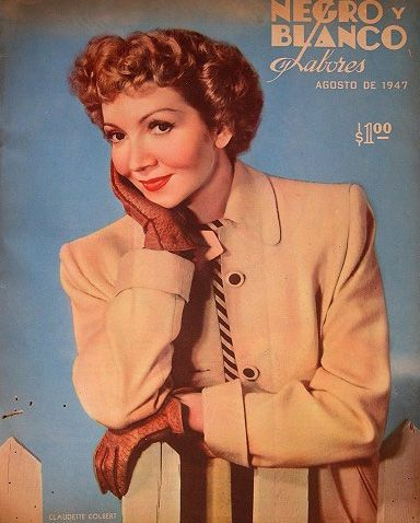 Claudette Colbert